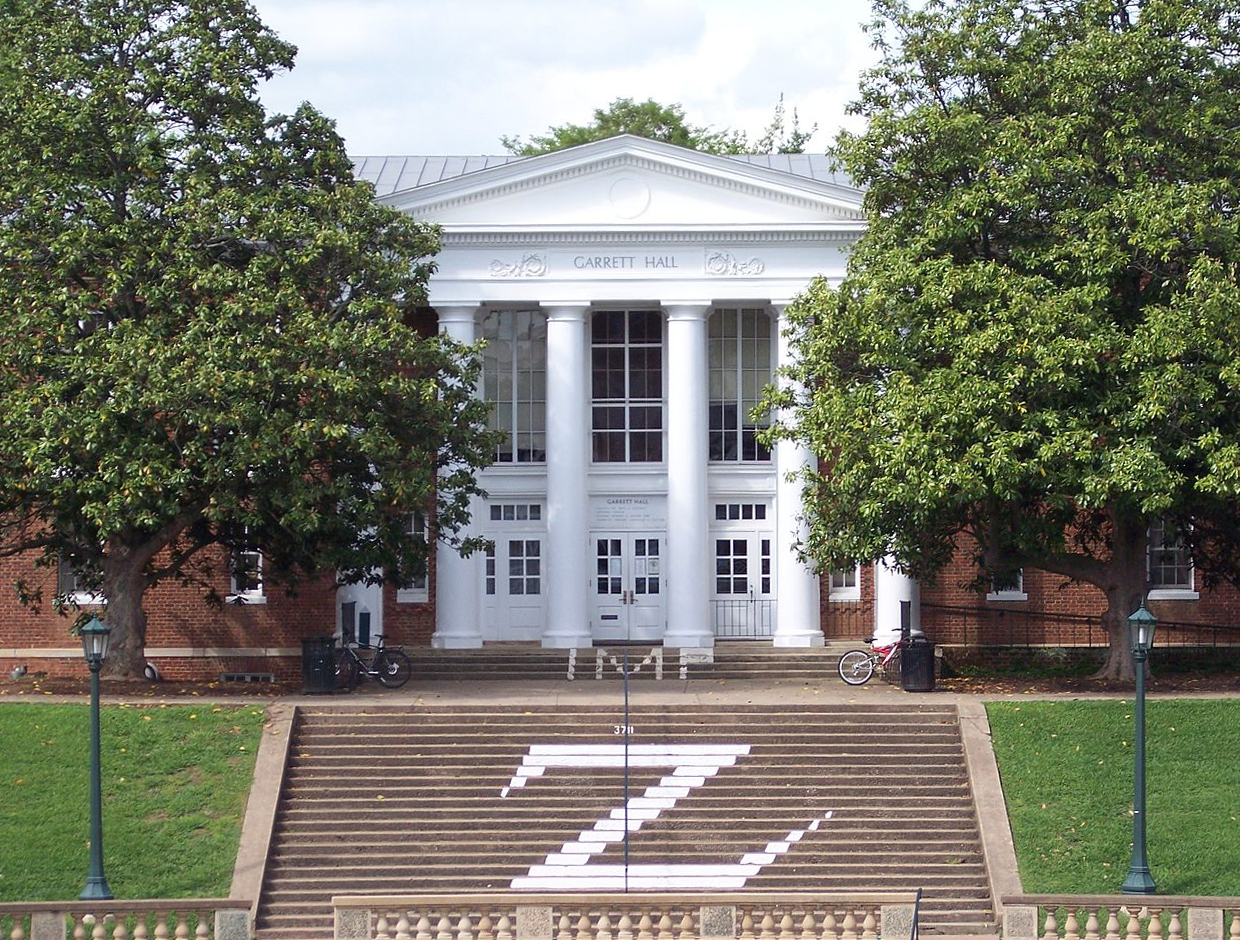 Garrett hall at the University of Virginia